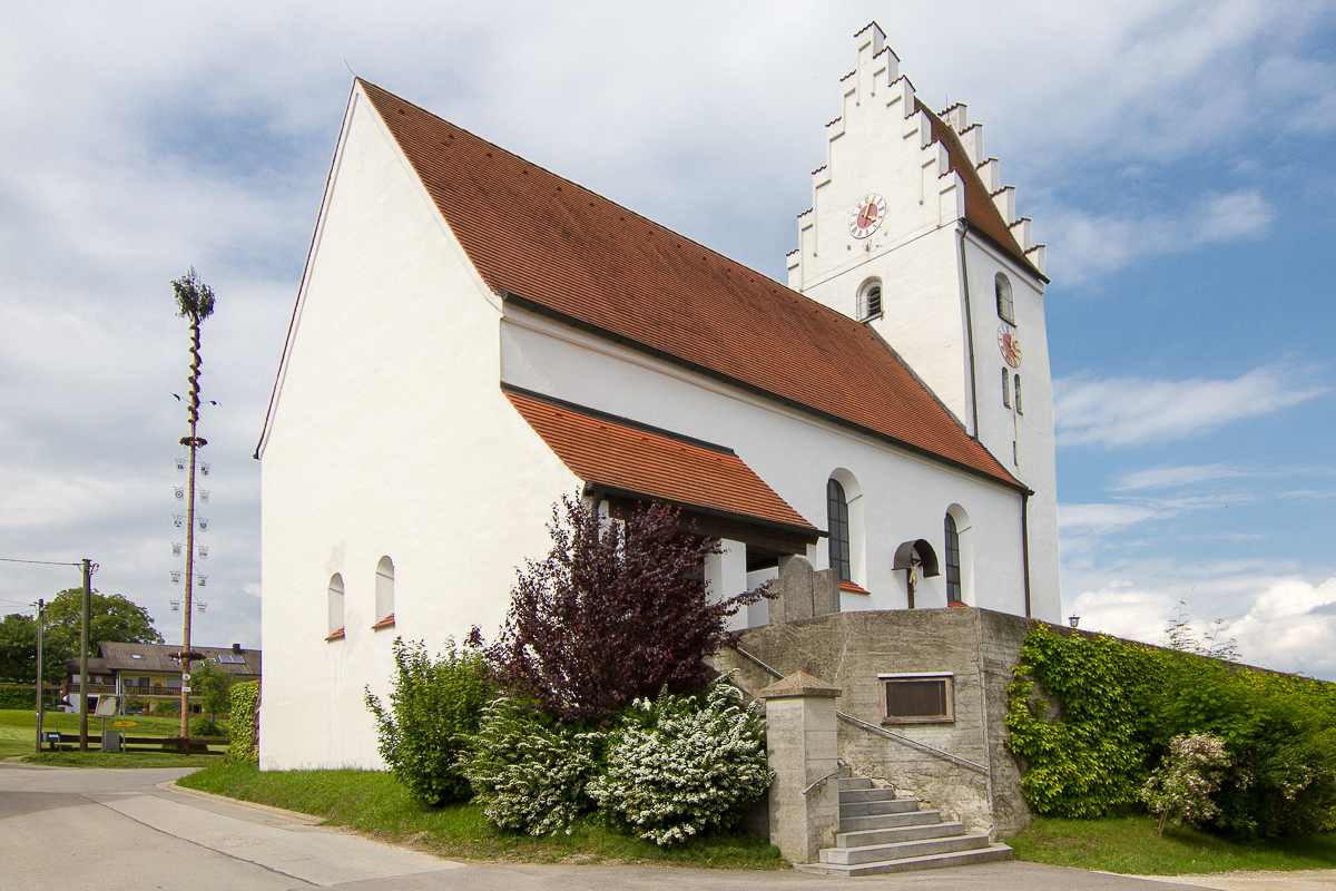 This is a photograph of an architectural monument.